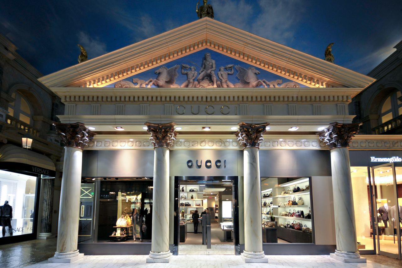 Caesar's Palace shop